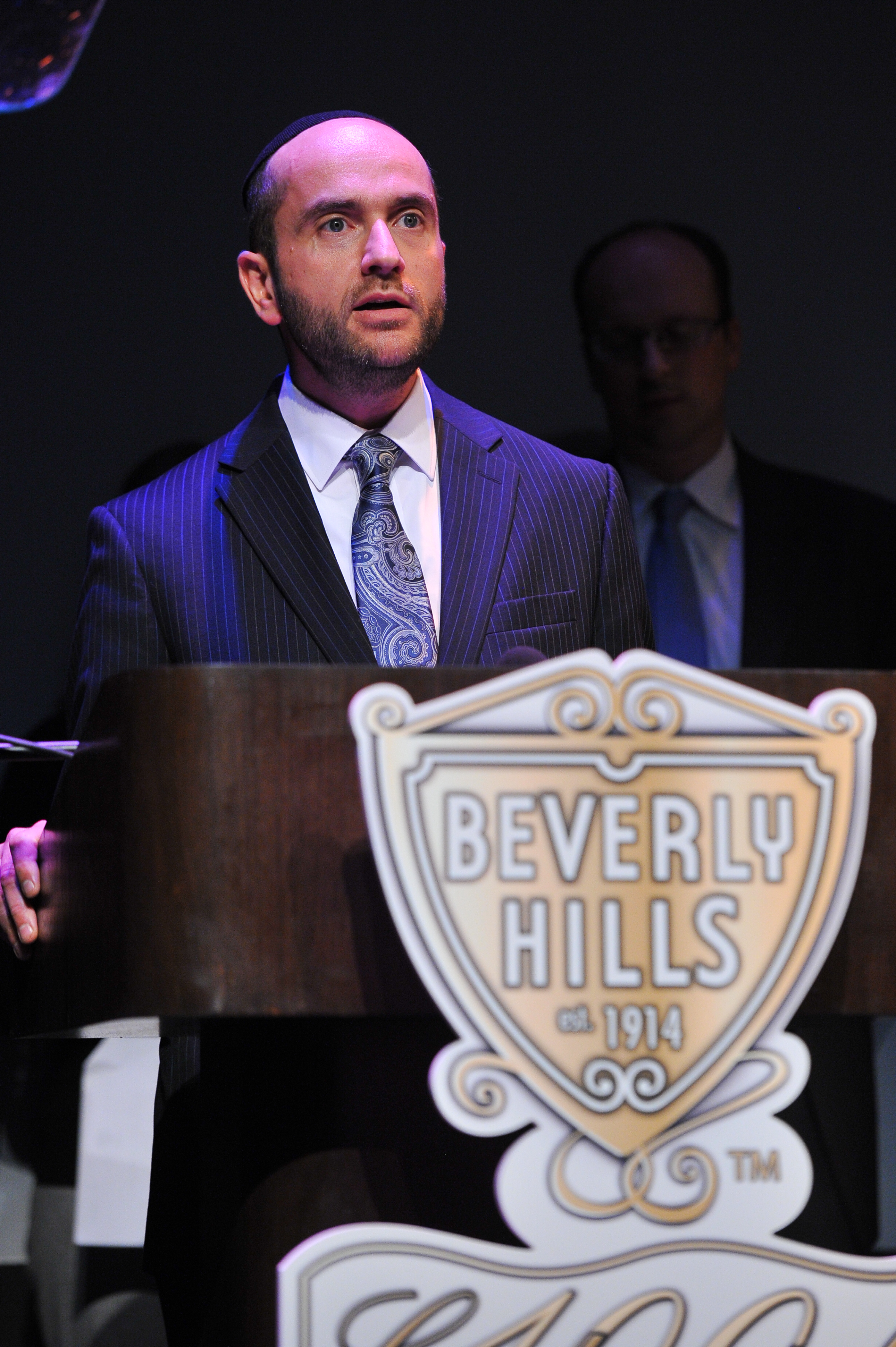 Rabbi Pini Dunner delivers the invocation at the installation of Lili Bosse as Mayor of Beverly Hills in 2014